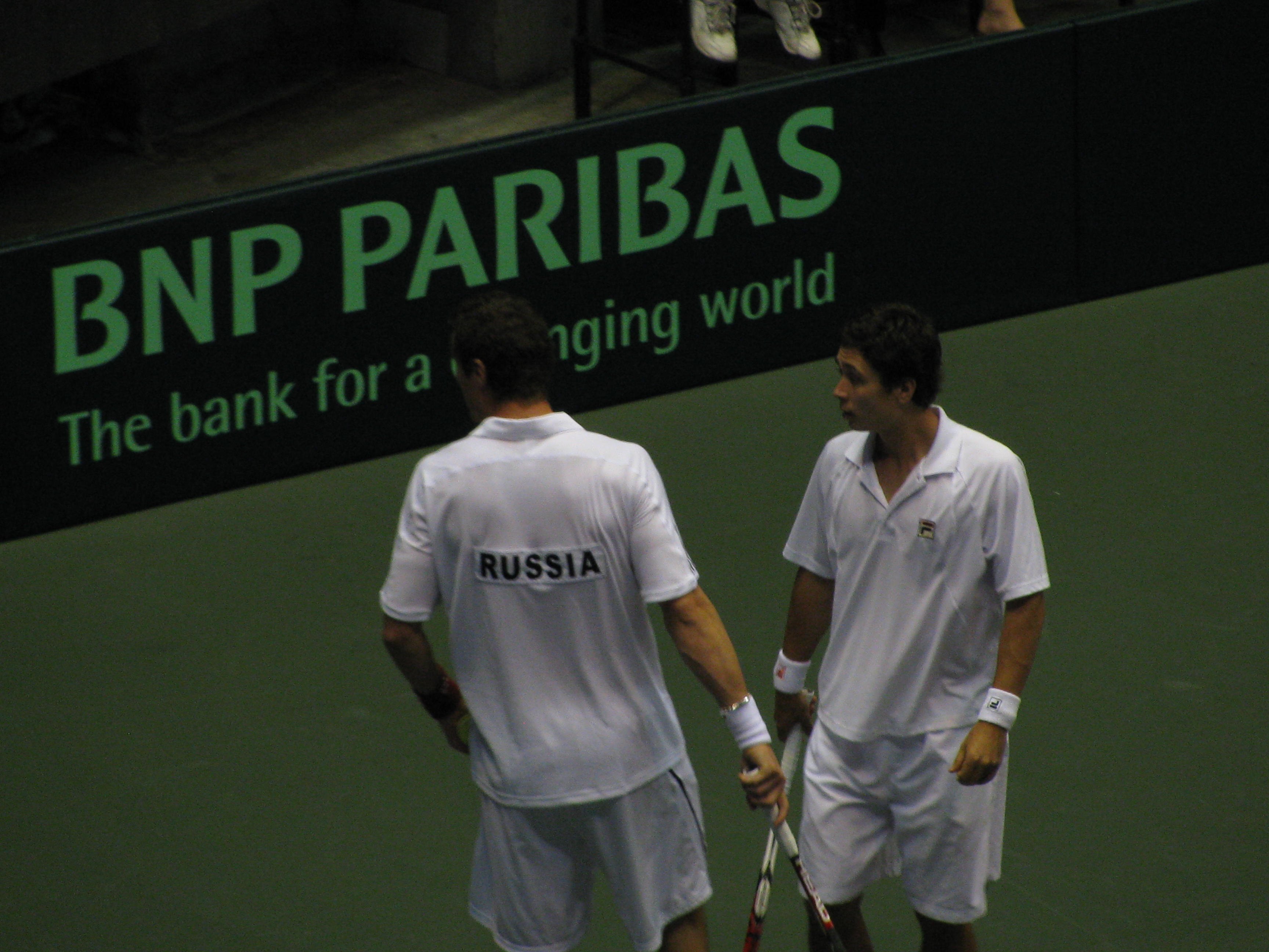 Igor Kunitsyn and Marat Safin during a double match against Andy Ram&Jonathan Erlich during 2009 Davis Cup World Groupe Quarterfinals